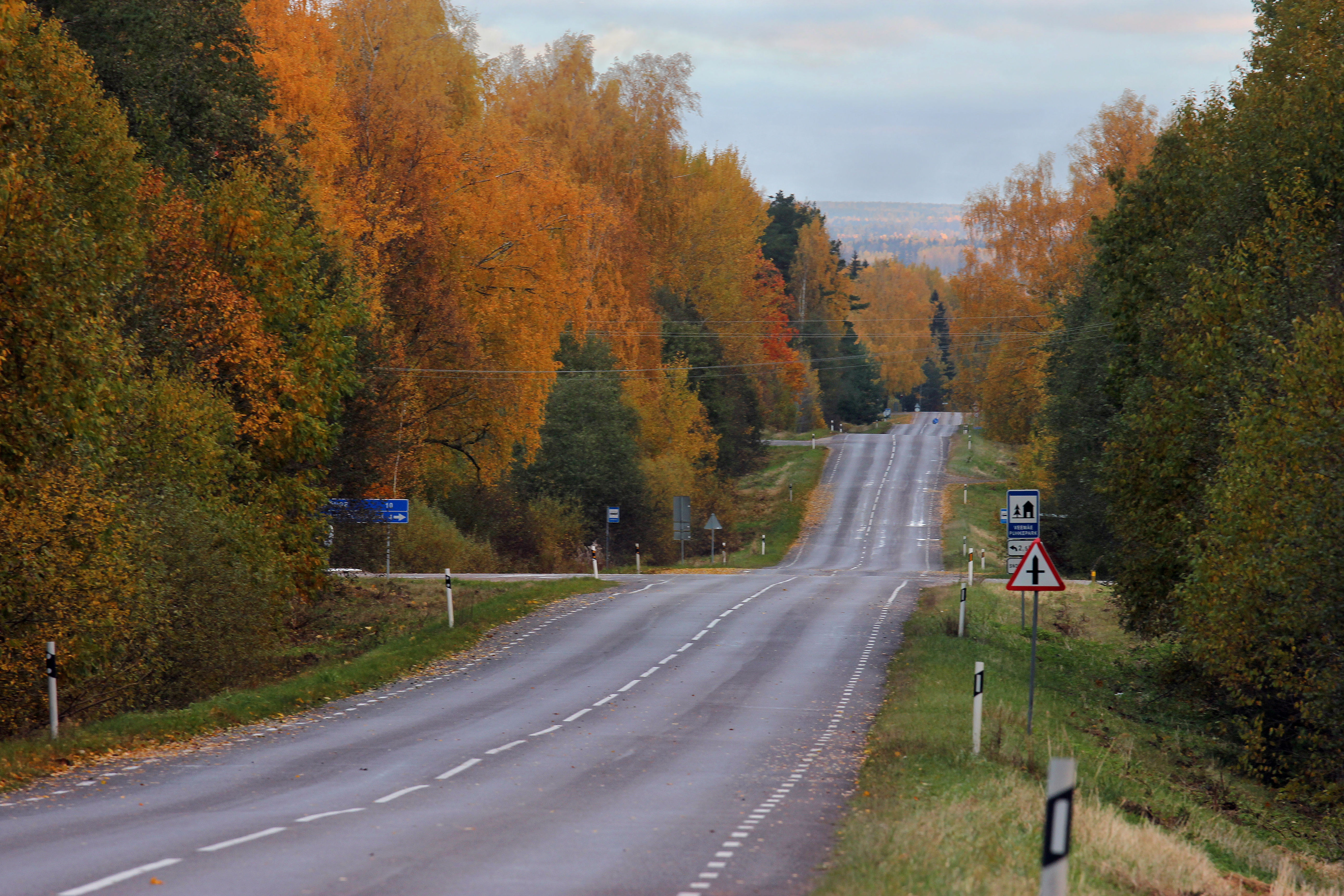 Autumn road in the Võru district. South Estonia